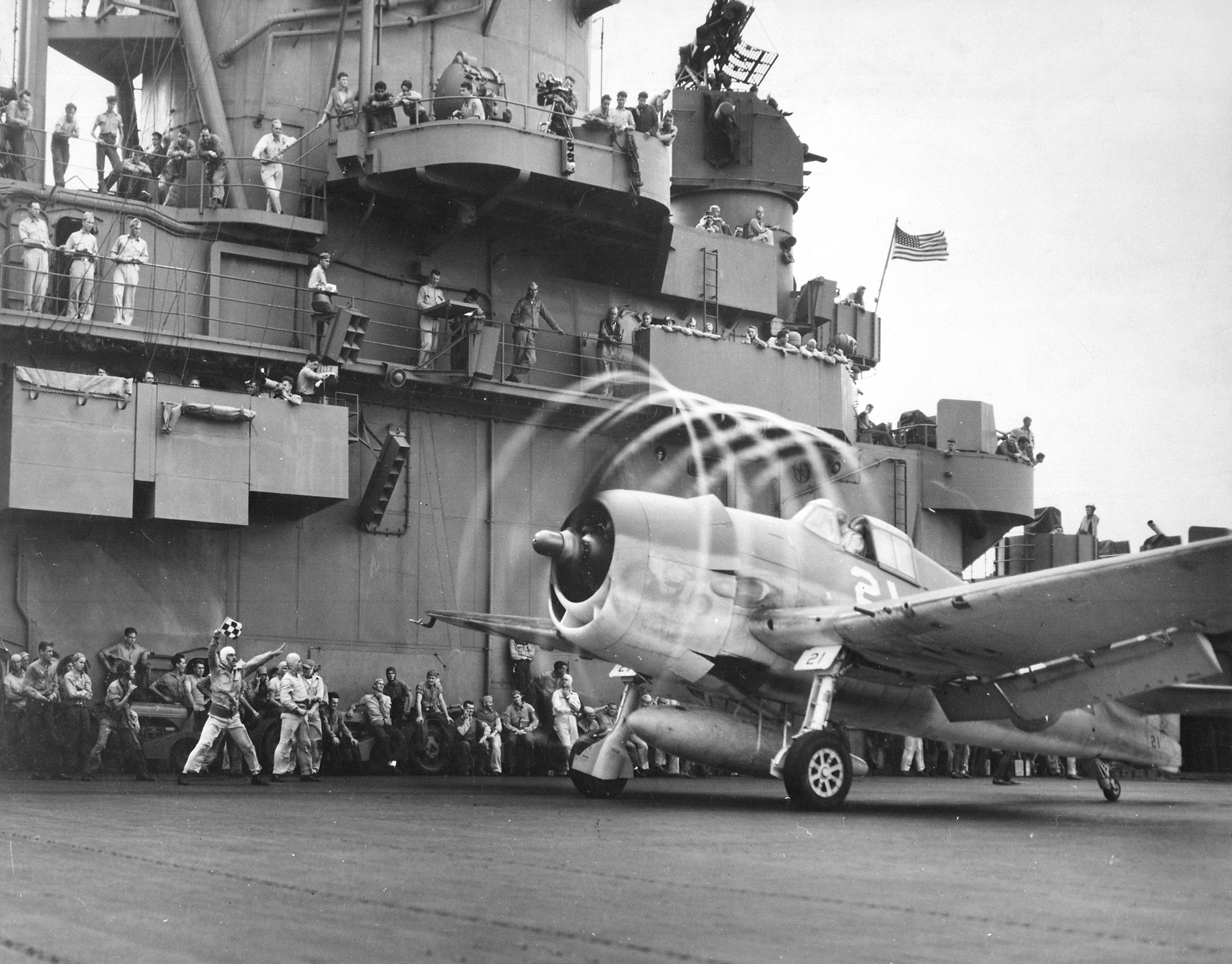 A U.S. Navy Grumman F6F-3 Hellcat fighter makes condensation rings as it awaits the take-off flag aboard USS Yorktown (CV-10), 20 November 1943. The plane is from Fighting Squadron Five (VF-5). Yorktown was then hitting targets in the Marshall Islands to cover the landings in the Gilberts.